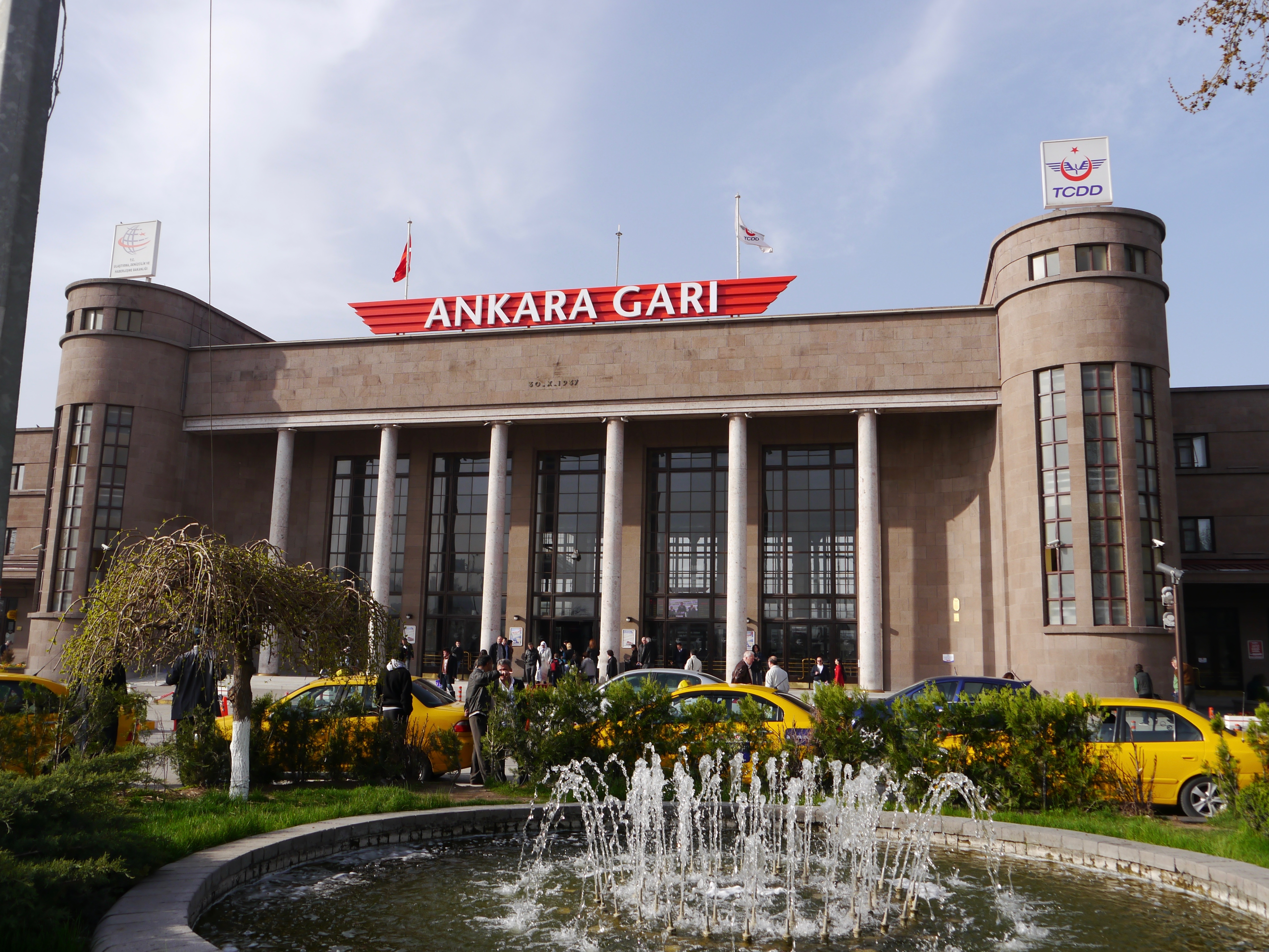 Ankara's central Train stationTürkçe: Ankara Garı